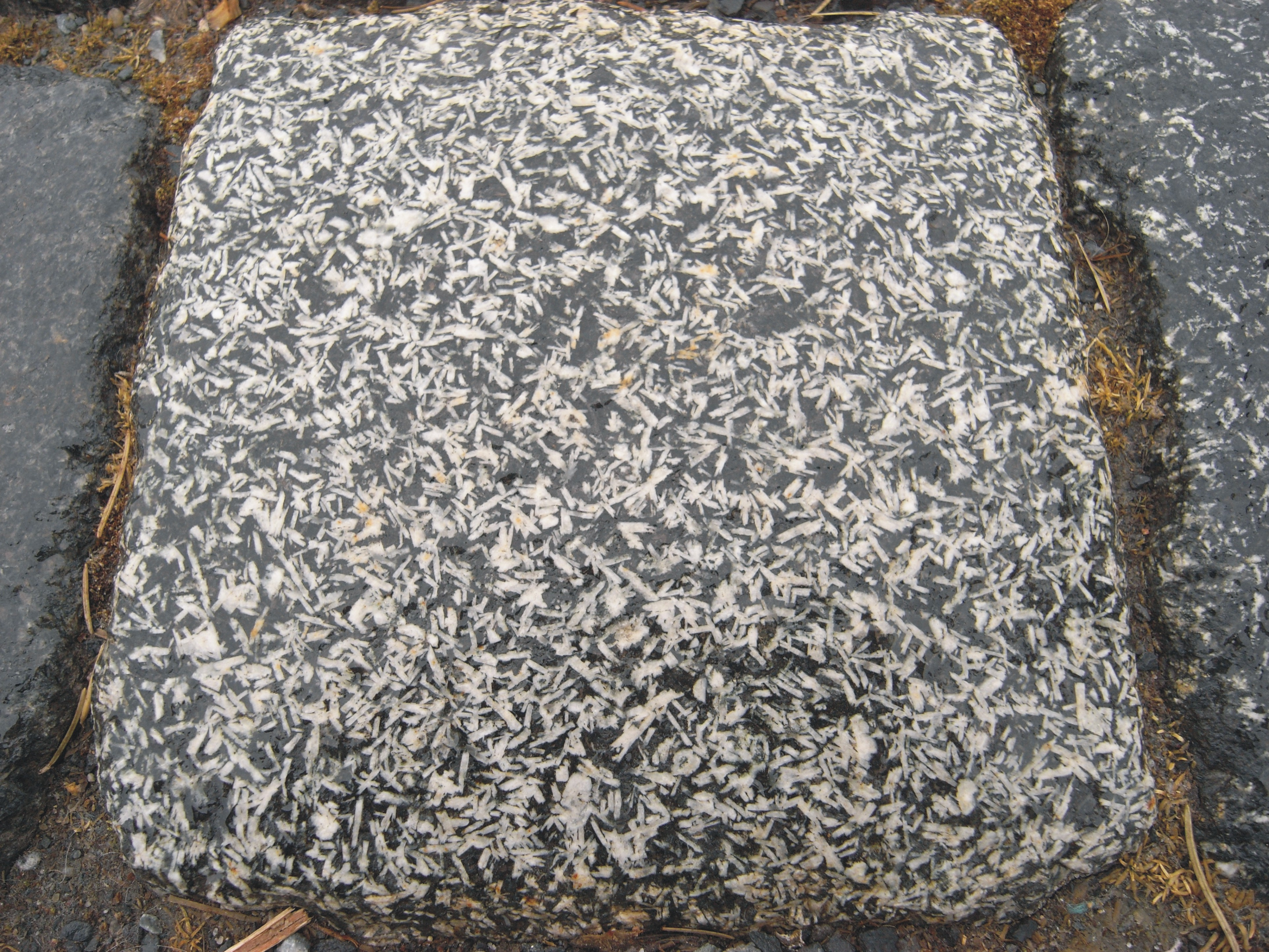 cobblestone, Lausitz lamprophyre, ophitic fabric